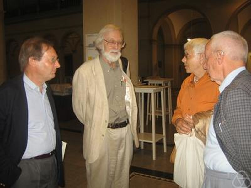 From left:Günther Frei, John Milnor, Yvonne Dold-Samplonius, Albrecht Dold, Zürich 2007 (90th birthday Beno Eckmann)